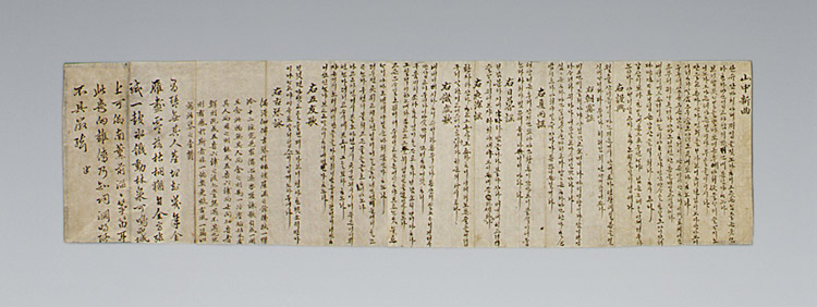 The copied book of Sanjungsingok written by Yun Seondo (1587 - 1671). Korean Treasure No. 482-3.